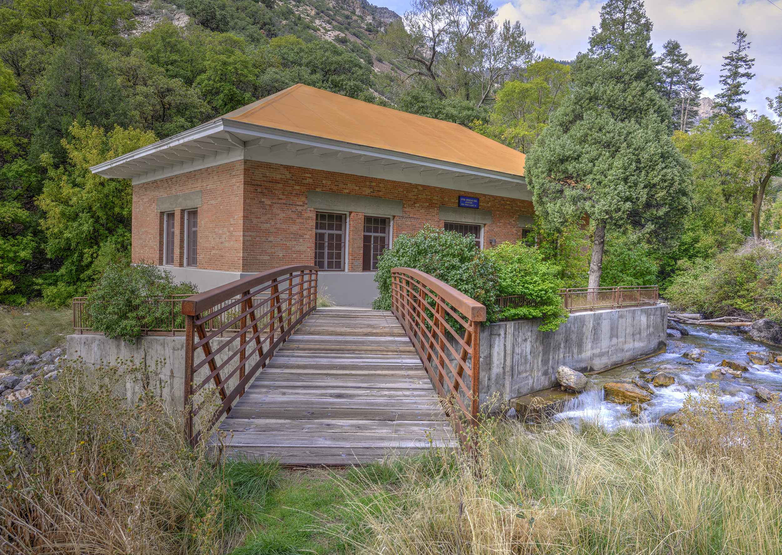 Upper American Fork Hydroelectric Power Plant Historic District, State Route 80 Highland